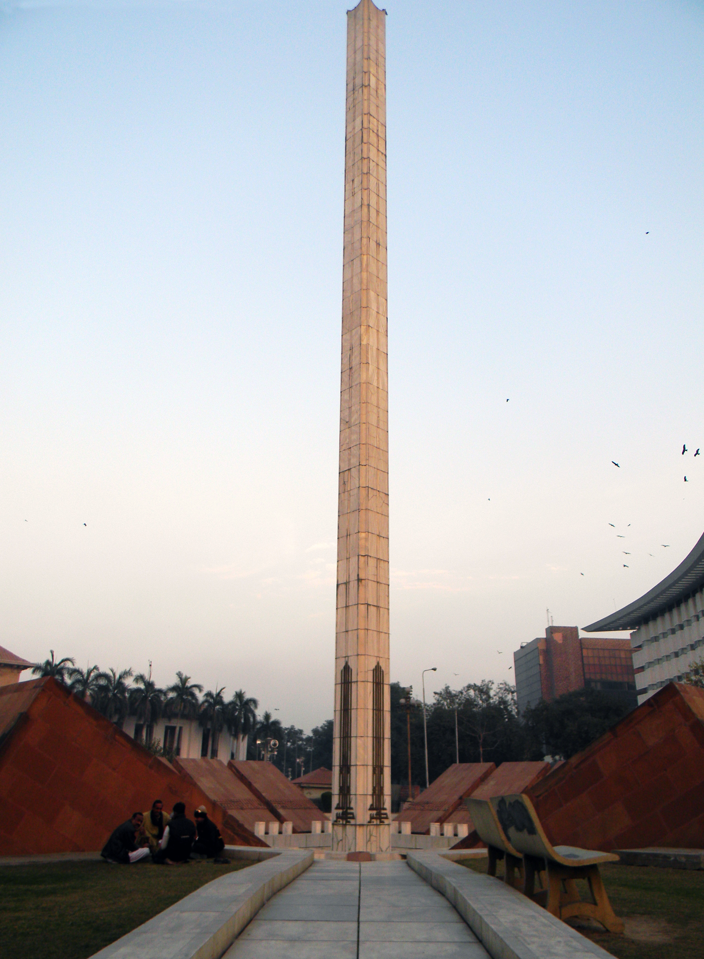 Islamic Summit Minar, Lahore, Pakistan